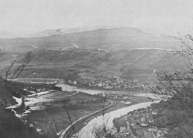 Wallendorf-Pont, Luxembourg (left) and Wallendorf, Germany (right)